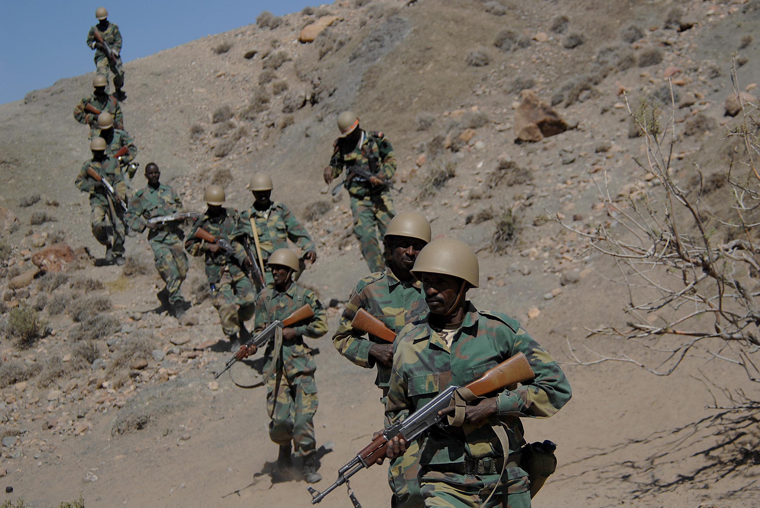 Djiboutian army soldiers head out on patrol during Operation Able Dart 08-01 on Forward Operating Location Ali Sabieh, Djibouti, March 4, 2008.